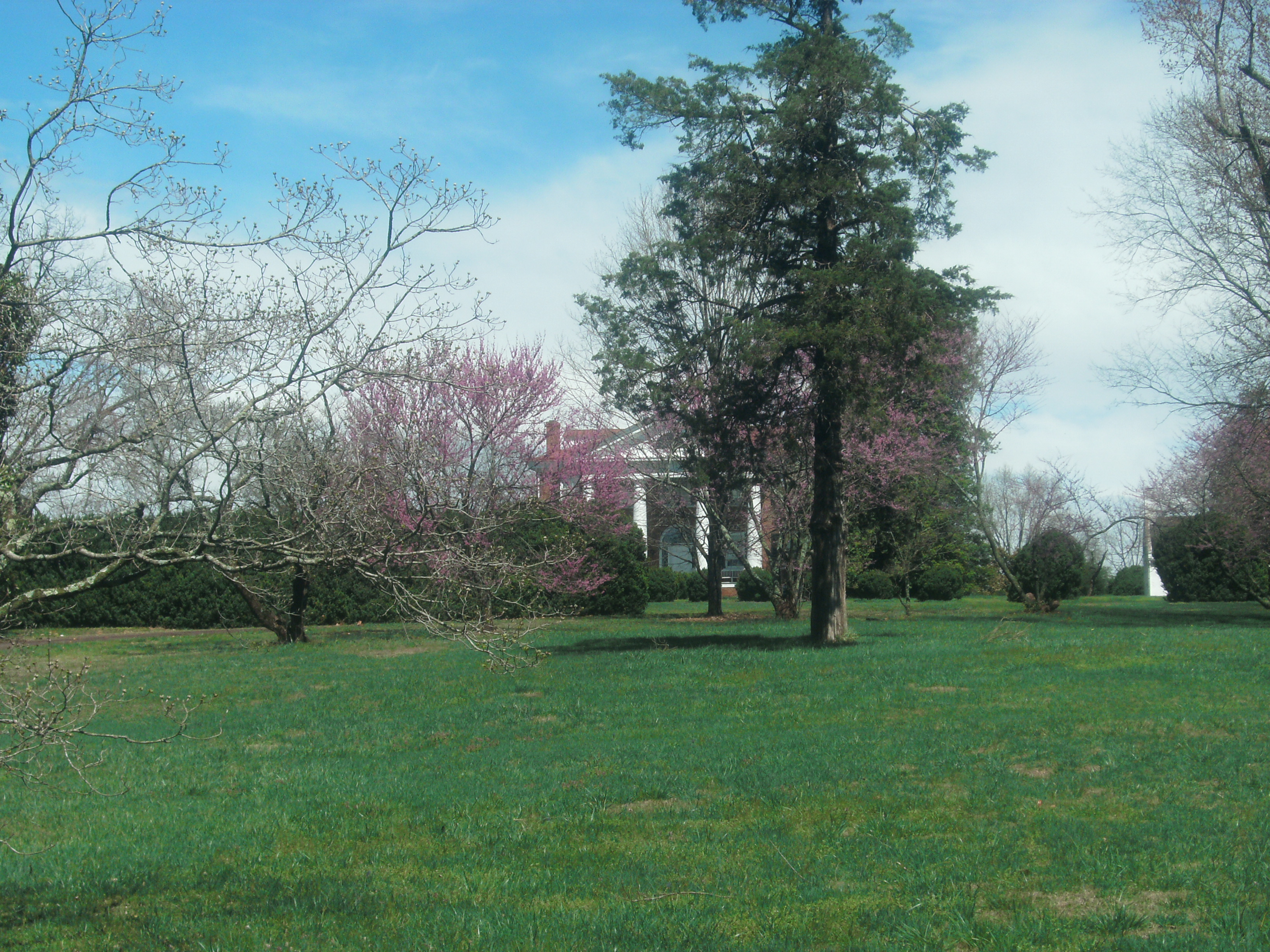 Frascati